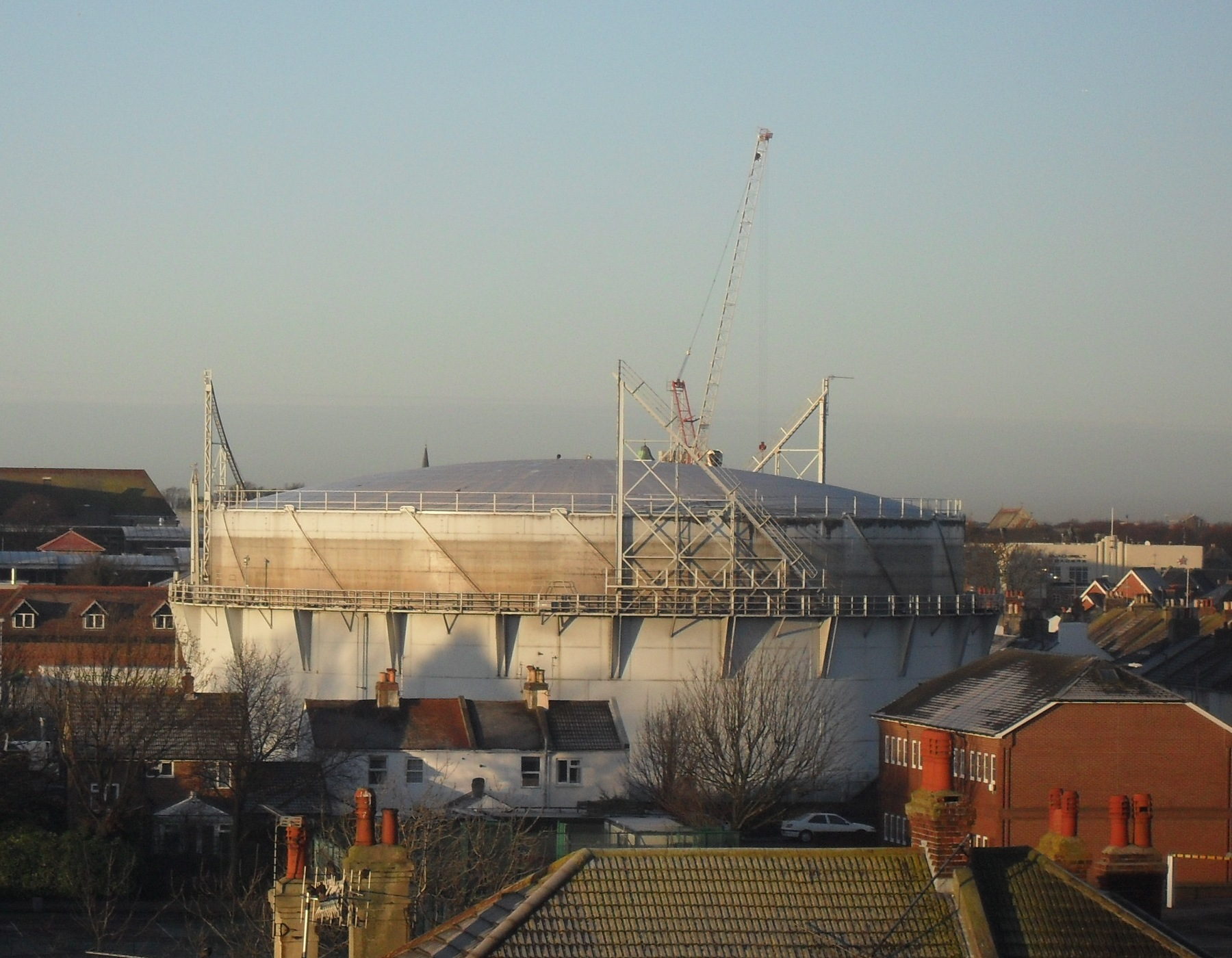 Gasholder at the former gasworks site in Worthing, West Sussex, England. Gas was manufactured here between 1834 and 1931; the gasholder was built in 1934.